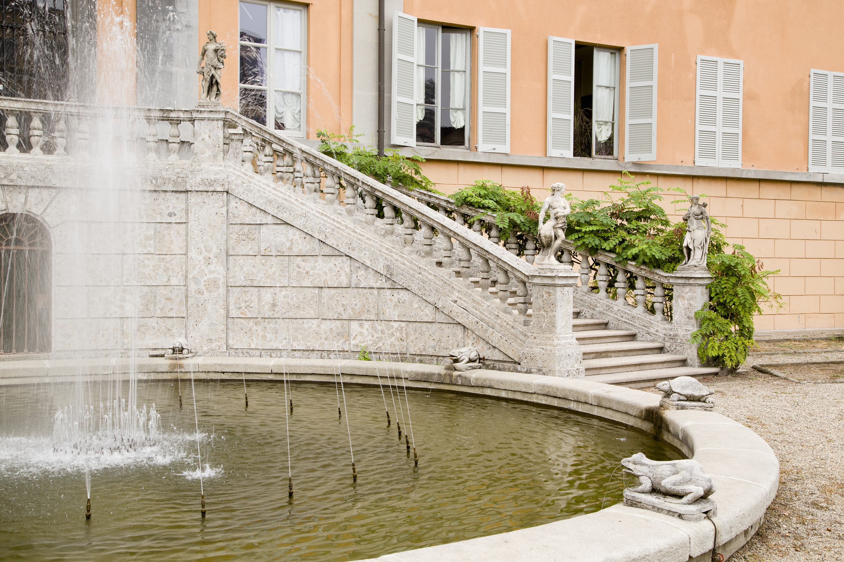 This is a photo of a monument which is part of cultural heritage of Italy.